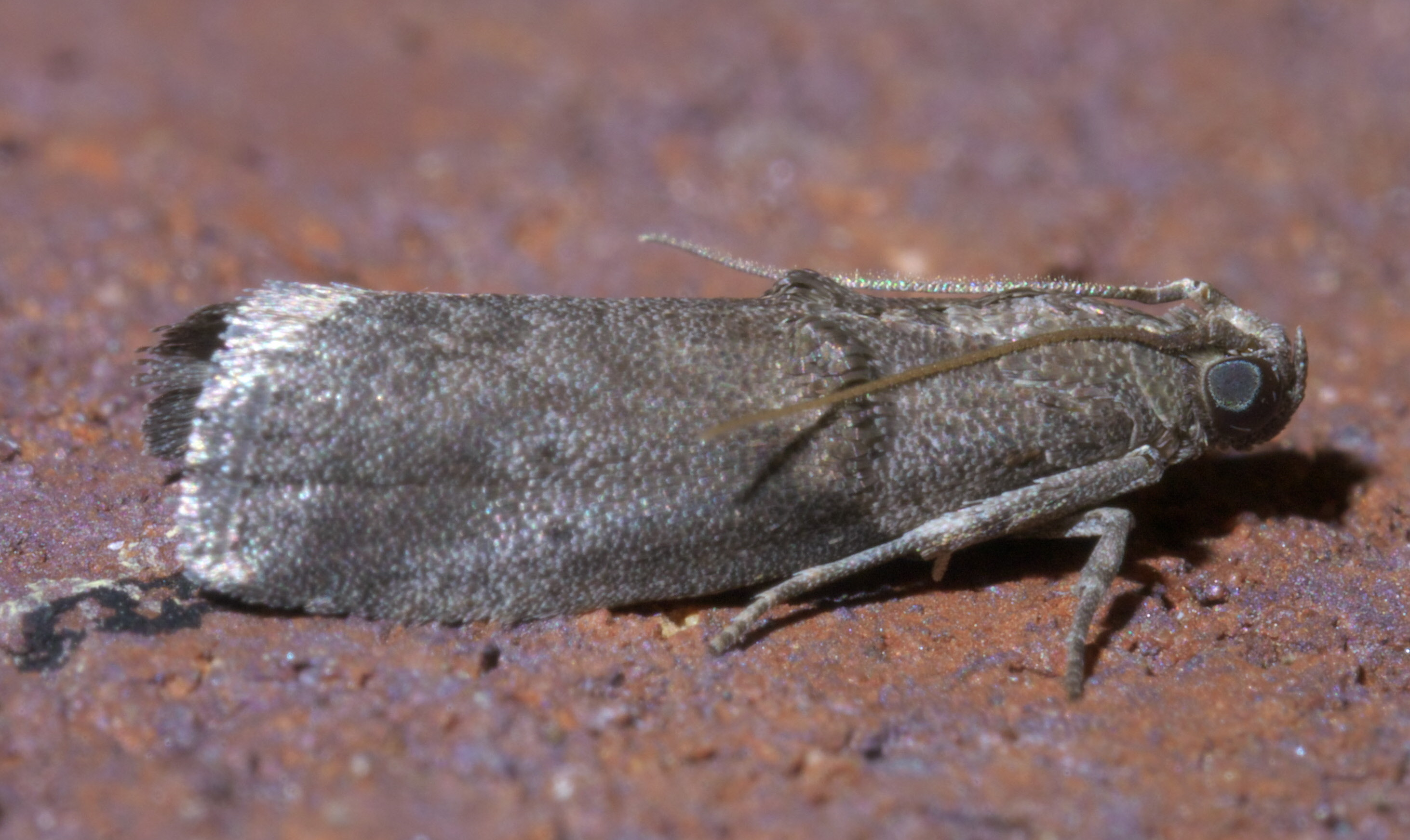 Acrobasis caryae, hickory shoot borer, Size: 8.8 mm, ID Confidence: 86